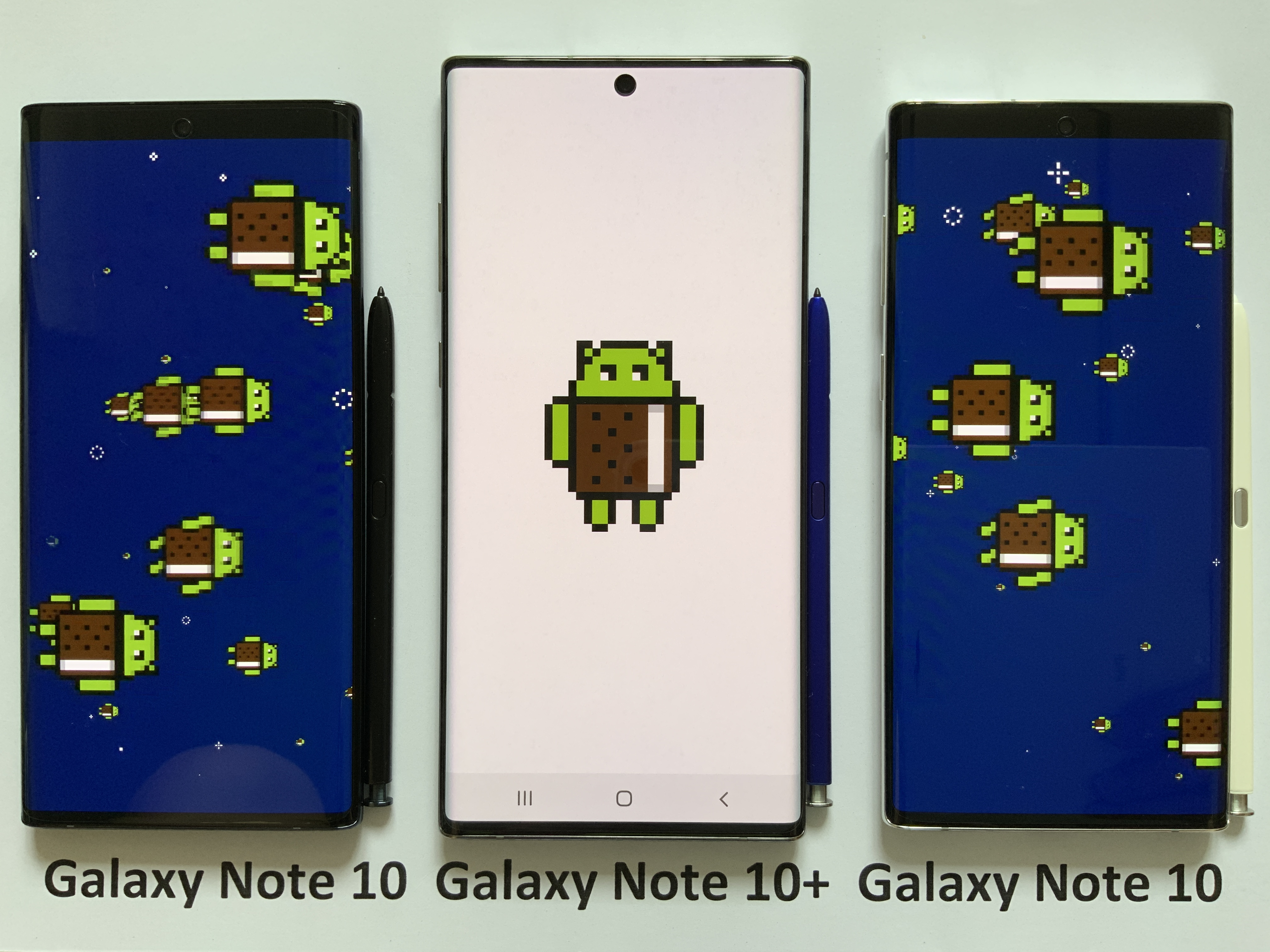 Android Ice Cream Sandwich Easter eggs shown on Samsung Galaxy Note 10